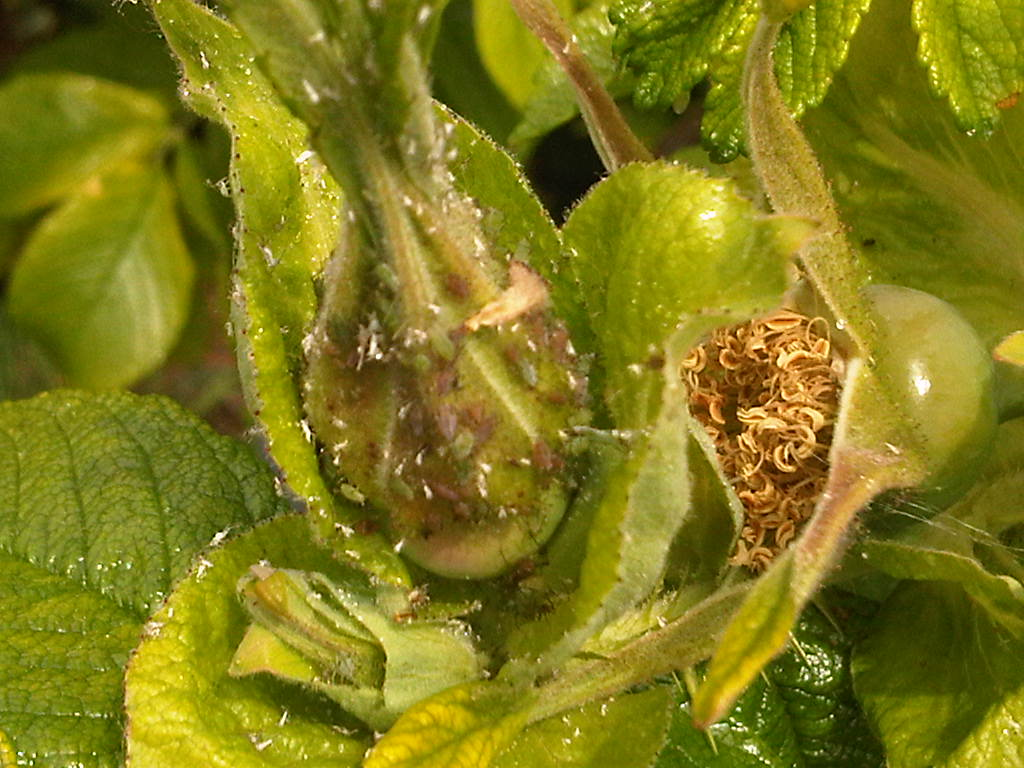 Macrosiphum rosae on a Japanese rose (Rosa rugosa) in London, England.